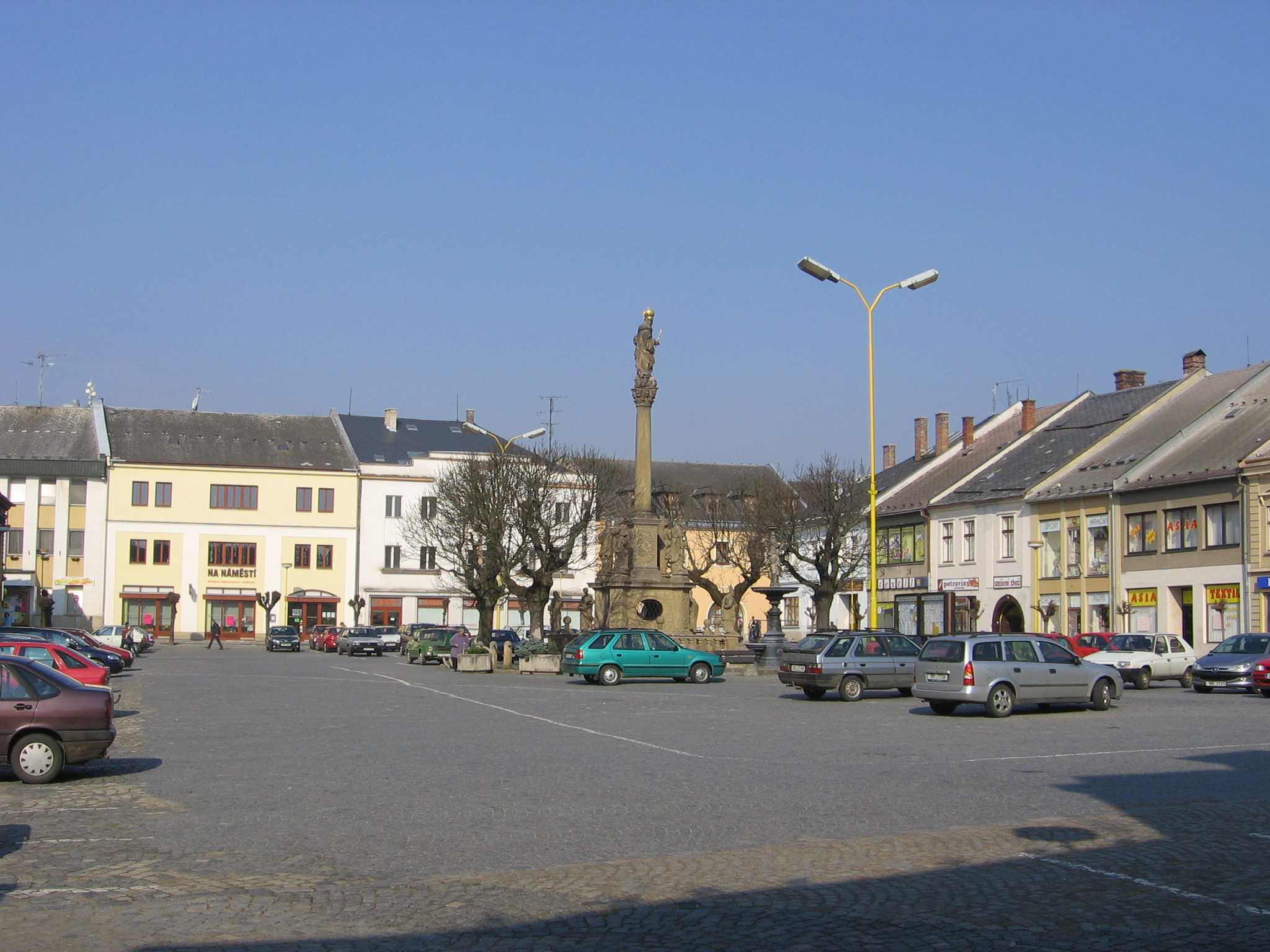 Square of Freedom in Mohelnice